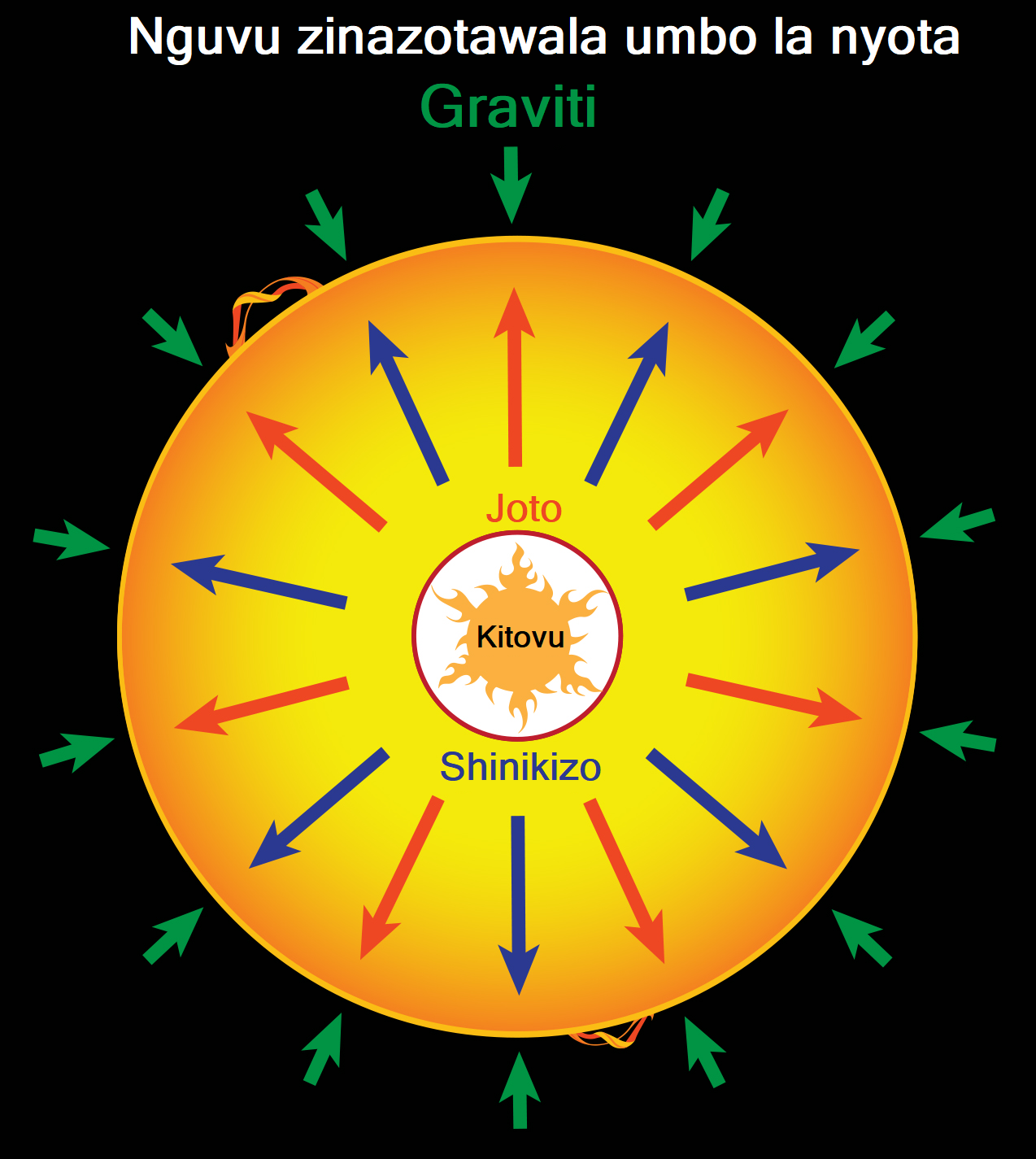 What holds stars together? It’s a balance of gravity pushing in on the star and heat and pressure pushing outward from the star’s core. (from explanations changed to Swahili Kiswahili: Nguvu zinazotawala umbo la nyota (kutoka tovuti ya NASA